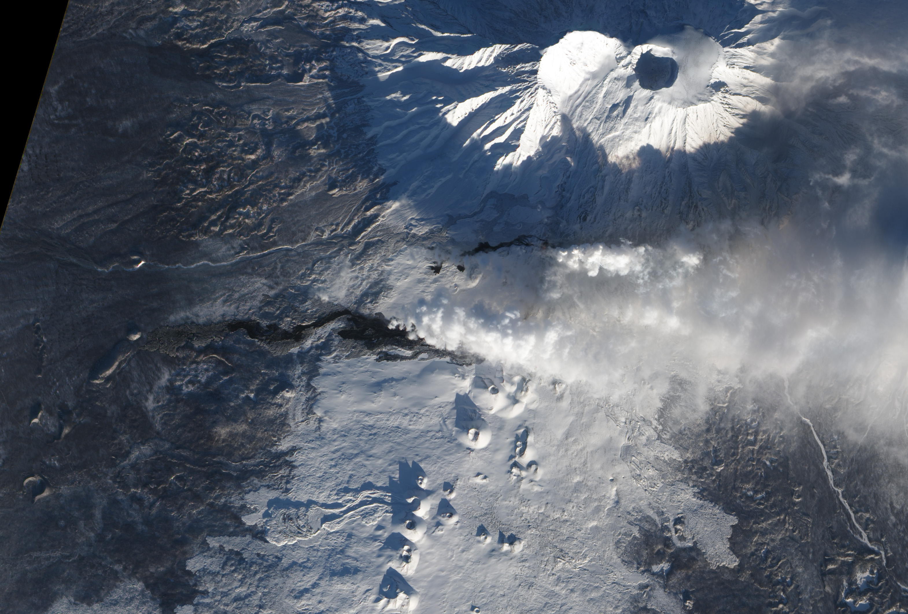 After more than a month of eruption, lava continues to flow from Tolbachik, one of many active volcanoes on Russia’s Kamchatka Peninsula. The current eruption at Tolbachik began on November 27, 2012. Lava flowed up to 20 kilometers (12 miles) from a line of fissures on the volcano’s southern flank. Since then, some of the lava has cooled enough to allow snow to accumulate. Snow-covered lava flows appear gray in this natural-color satellite image. Fresher lava appears black. A faint orange glow at the head of the northern flow marks the location of an erupting fissure. The image was collected on December 22, 2012, by the Advanced Land Imager (ALI) on the Earth Observing-1 (EO-1) Satellite. According to the Kamchatka Volcanic Eruption Response Team (KVERT) the eruption continued through December 30, 2012.